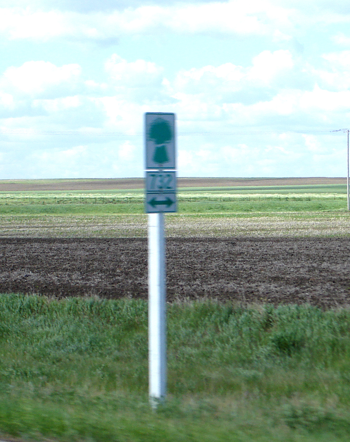 Saskatchewan Highway 732 Road Sign. Taken from Saskatchewan Highway 11, Louis Riel Trail travelling south from Saskatoon to Regina